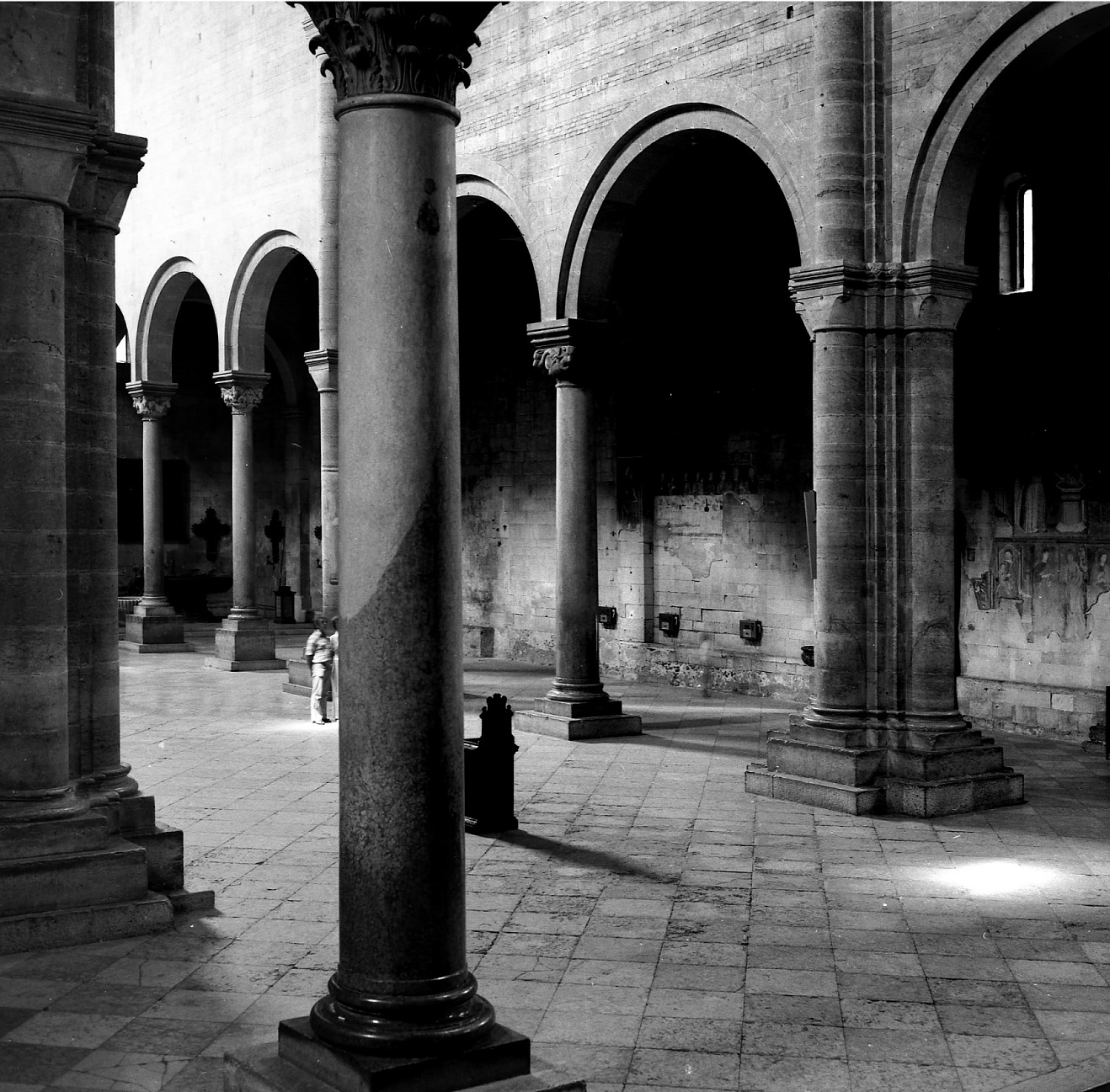 San Zeno Maggiore: interior view